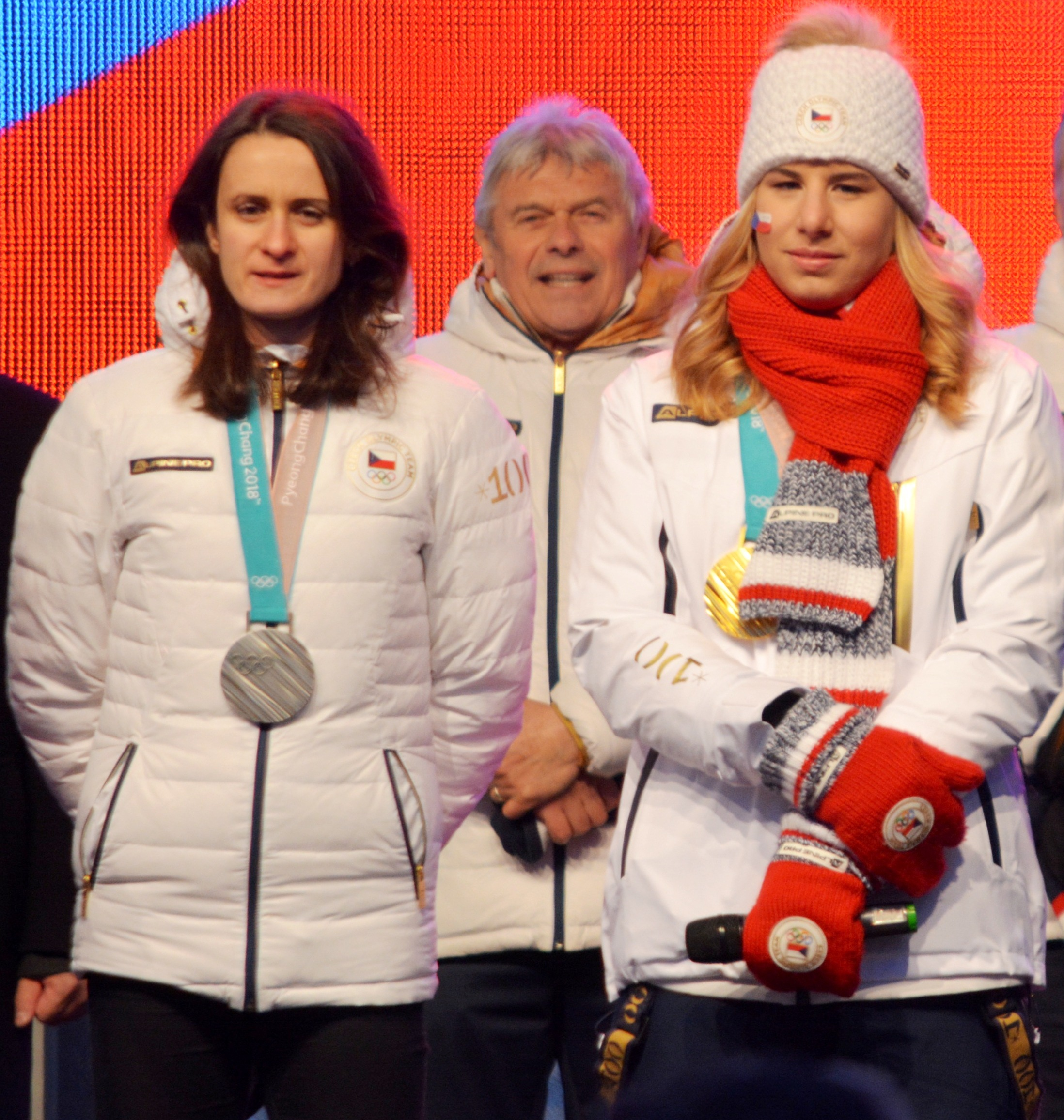 from left: Martina Sáblíková and Ester Ledecká, Czech Olympic medalists at the 2018 WOG in PyeongChang